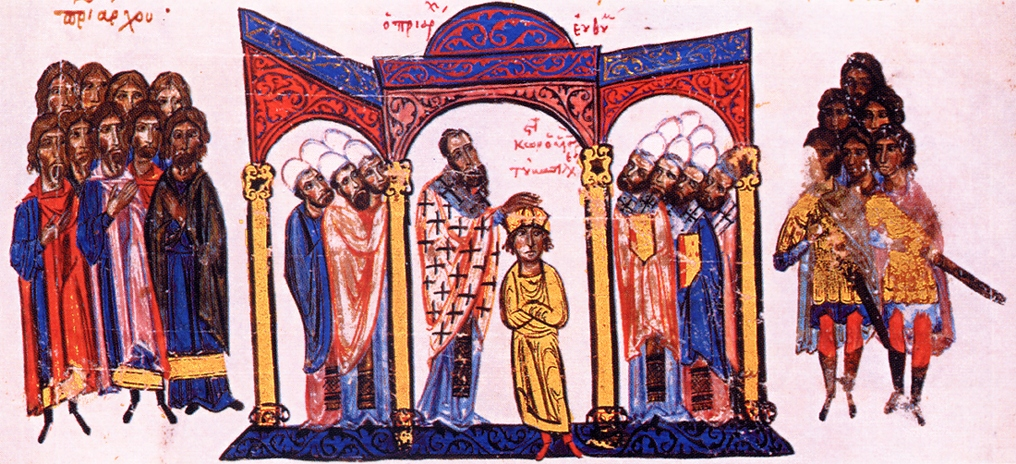 Skyllitzes Matritensis, fol. 114v, detail